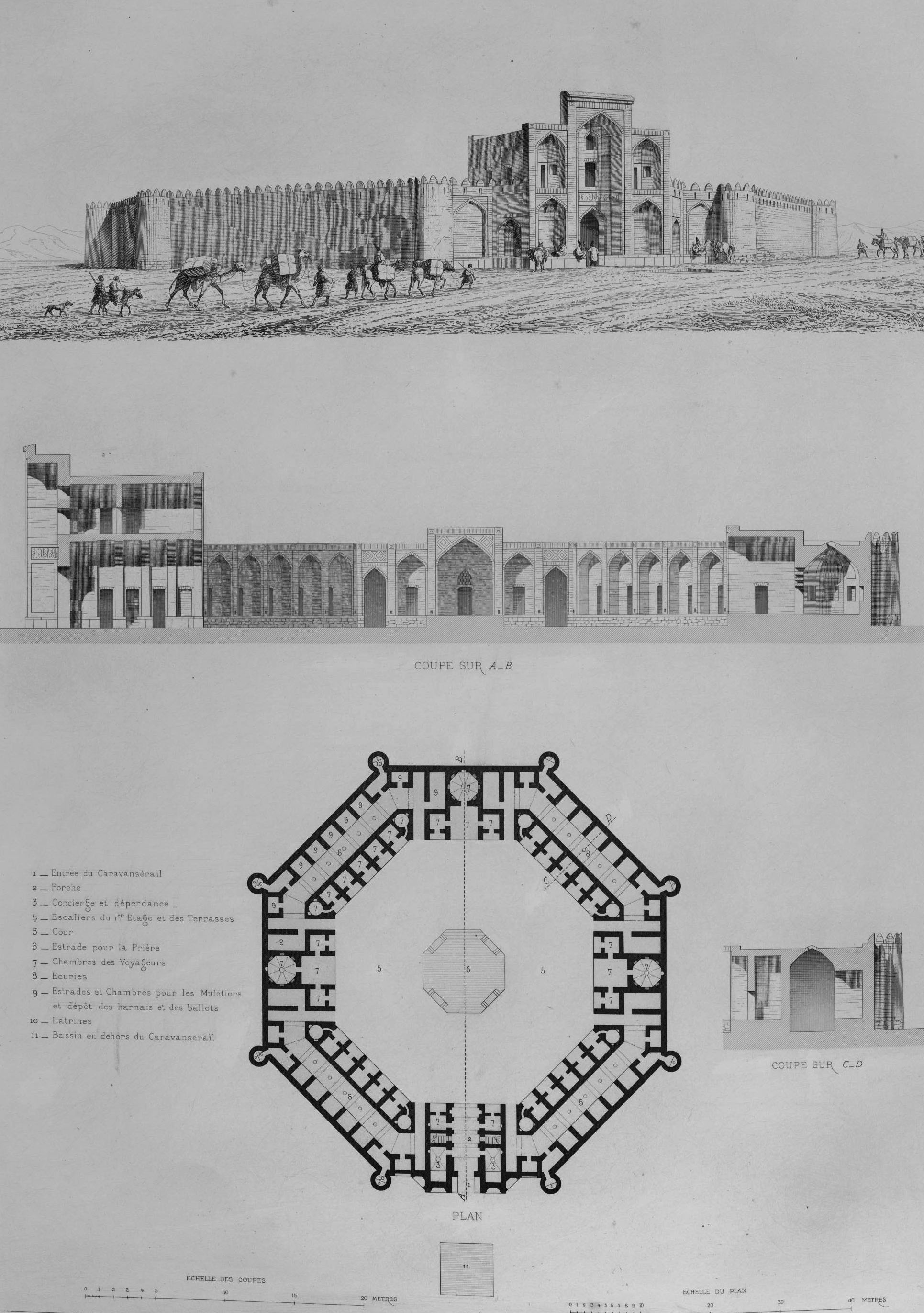 Amin Abad caravanserai on the road to Isfahan Shiraz